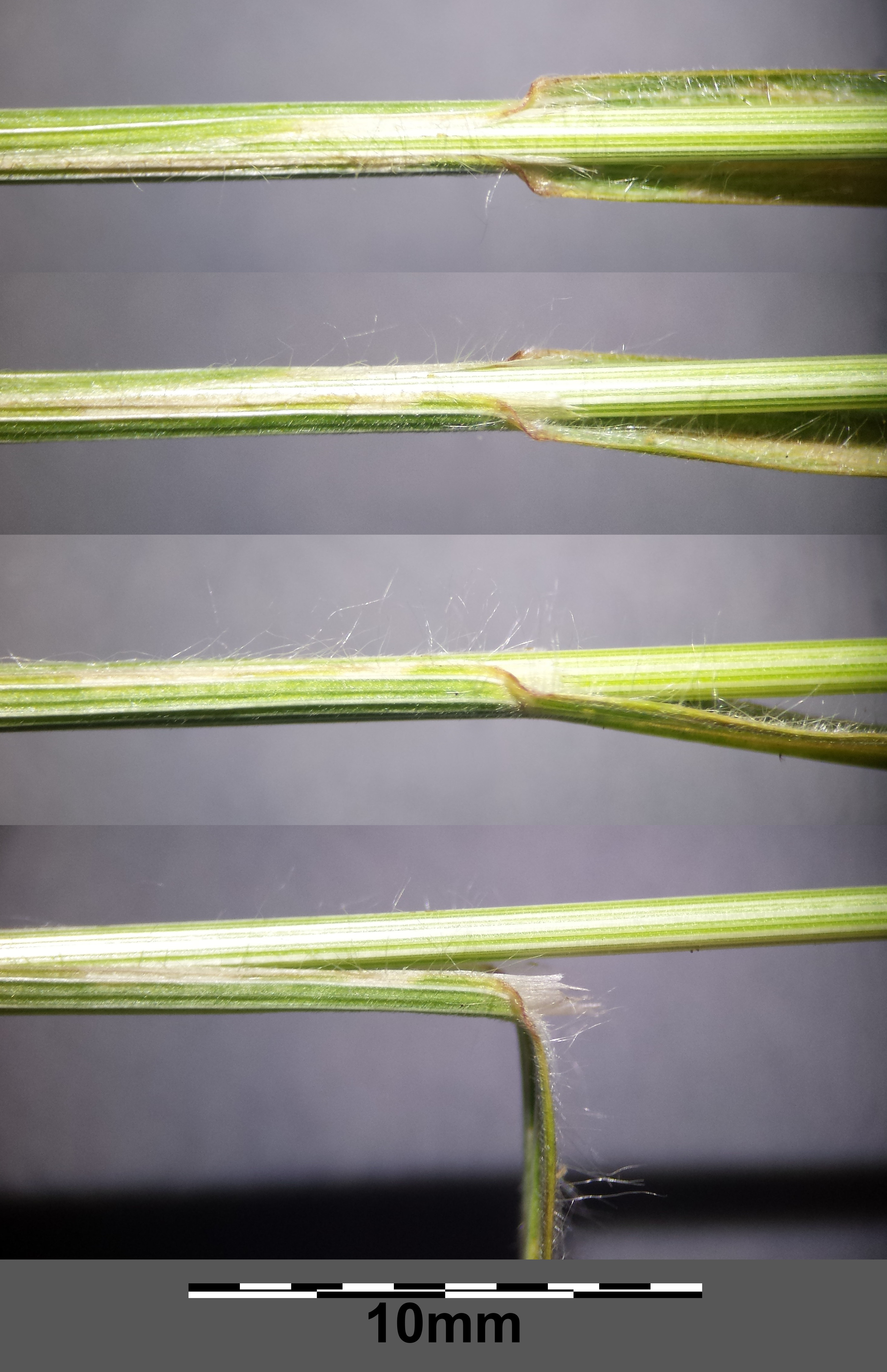 Stem with leaf sheath and ligule Taxonym: Bromus tectorum ss Fischer et al. EfÖLS 2008 ISBN 978-3-85474-187-9 Location: Jedlersdorf rail station, Vienna-Floridsdorf - ca. 160 m a.s.l. Habitat: ruderal area